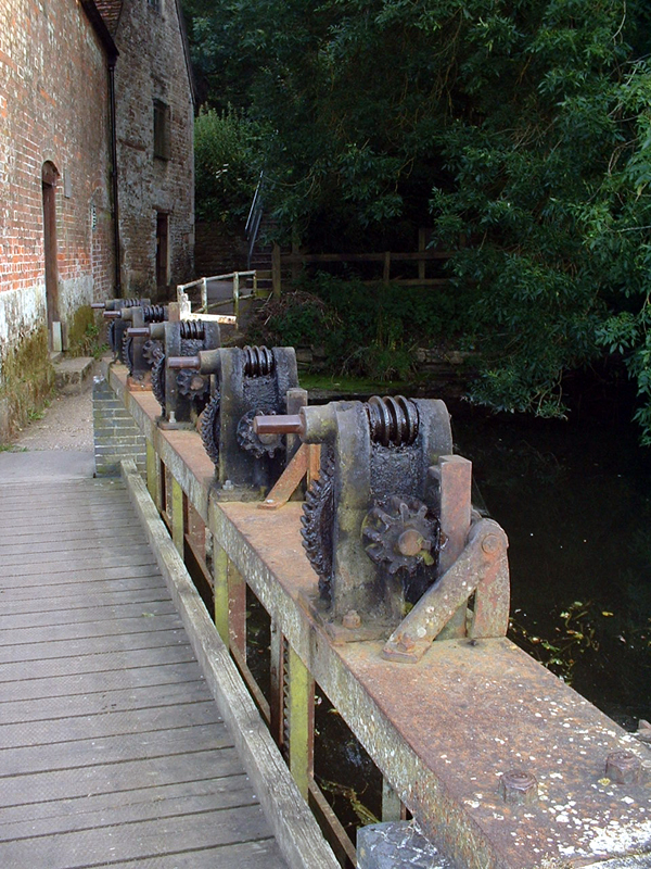 Weir mechanism, Sturminster Newton, Dorset. Taken by Joe D, July 19, 2004.